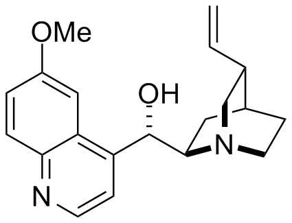 2D-structure of quinidine